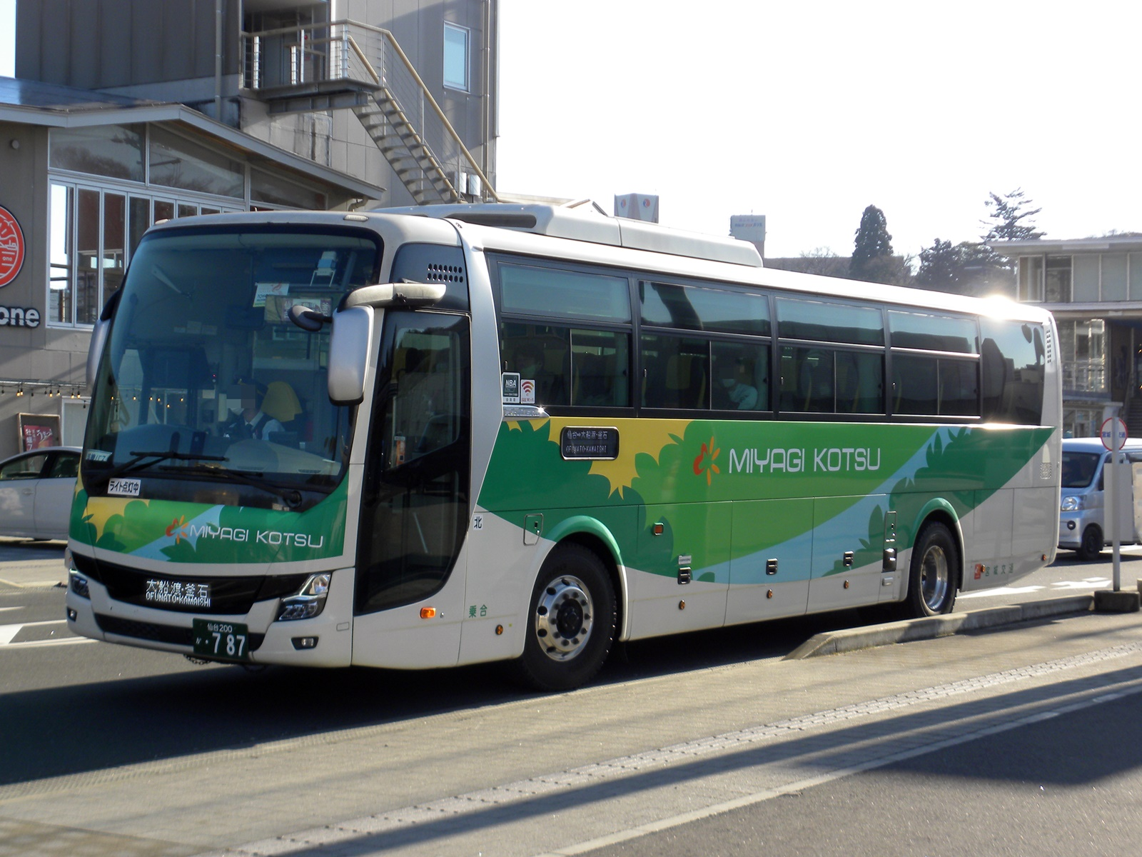 Miyagi Kotsu Mitsubishi Fuso Aero Ace (2TG-MS06GP)highwaybus "Sendai-Fukushima(for Fukushima racecourse)"